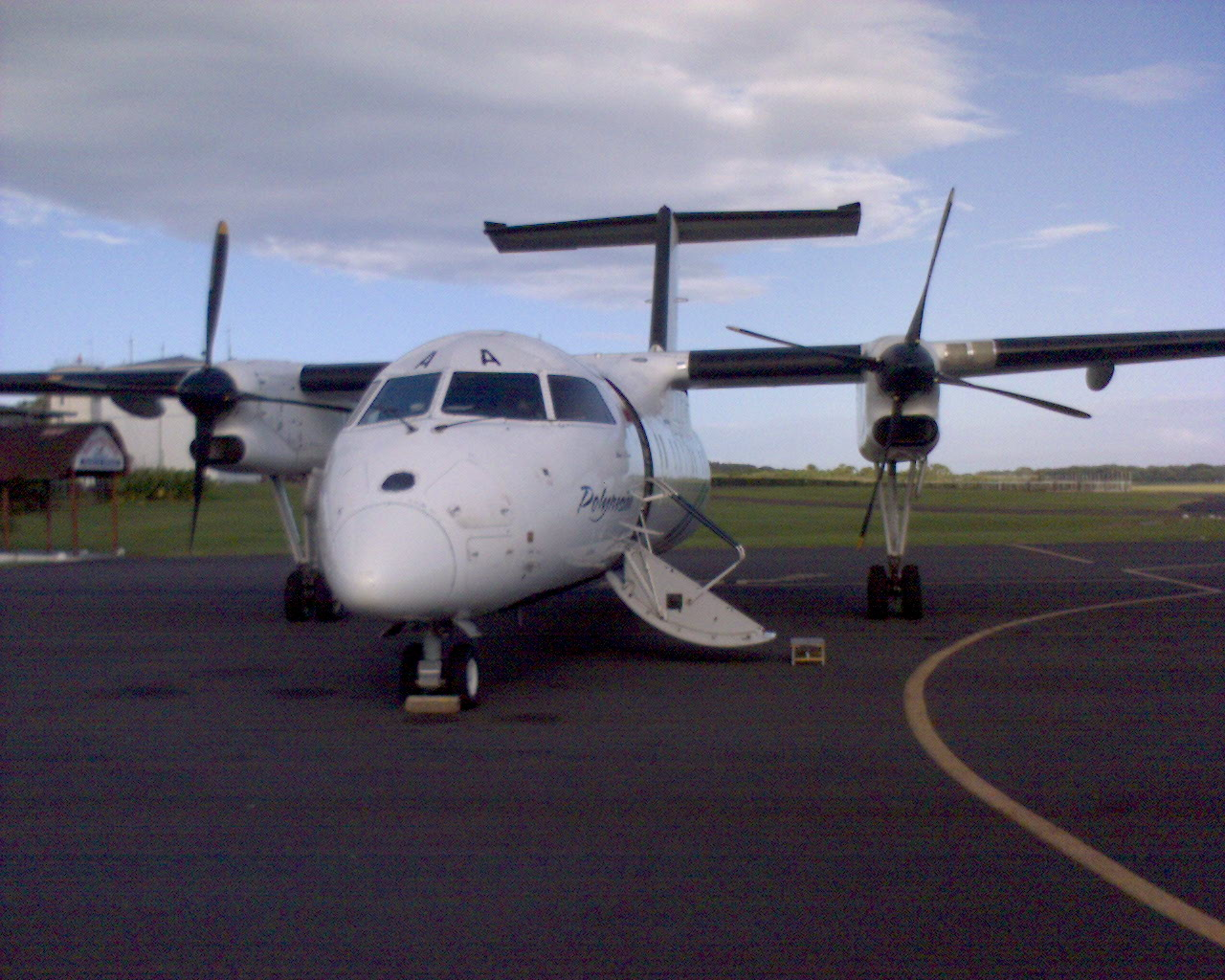 Polynesian Airlines Dash 8-100 5W-FAA at Faleolo in 2007; Registration: 5W-FAA